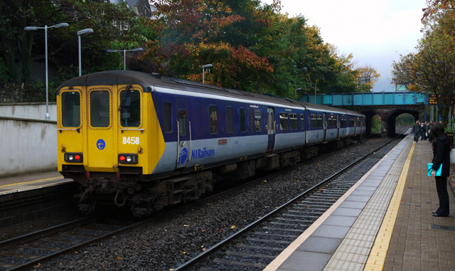 City Hospital railway halt. City Hospital railway halt, Belfast. A Northern Ireland Railways 450 class train NIR_Class_450 powered by 8458 'Antrim Castle' is just departing on the 1545 service from Larne to Belfast Great Victoria Street. See also 773286.